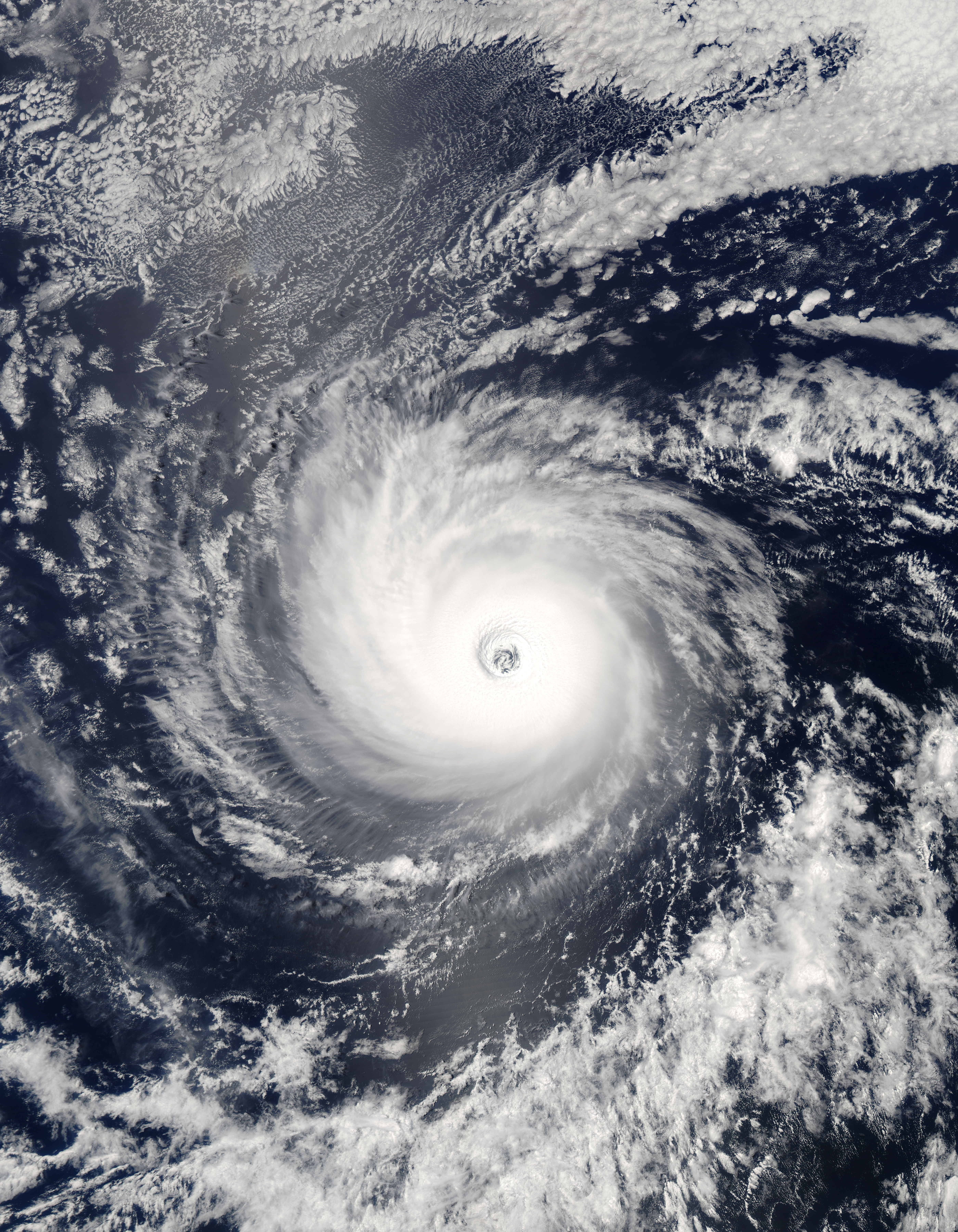 With winds near 240 kilometers per hour (150 miles per hour or 130 knots), Hurricane Daniel was a powerful and dangerous storm when the Moderate Resolution Imaging Spectroradiometer (MODIS) on NASA’s Aqua satellite captured this image on July 21, 2006, over the Eastern Pacific Ocean. Daniel has tightly spiraling clouds that circle an open eye with near-perfect symmetry: hallmarks of a well-organized storm. At the time, 2:55 p.m. Pacific Daylight Time (21:55 UTC), Daniel was a strong Category 4 storm, its winds just a few knots short of a Category 5 storm. The Central Pacific Hurricane Center predicted that the storm would move slowly northwest, gradually degrading into a tropical storm before hitting the island of Hawaii on July 28. The large image provided above has a resolution of 250 meters per pixel.